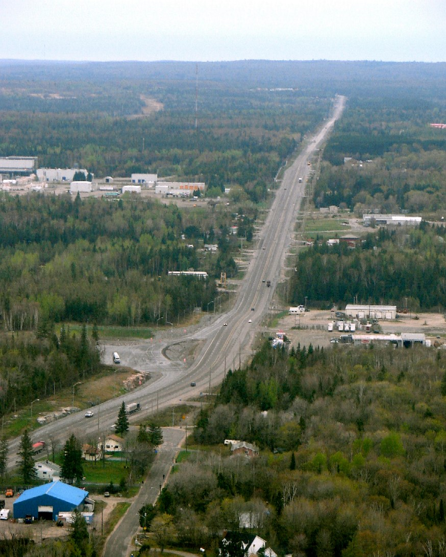 Highway 11 just north of North Bay, Ontario, Canada